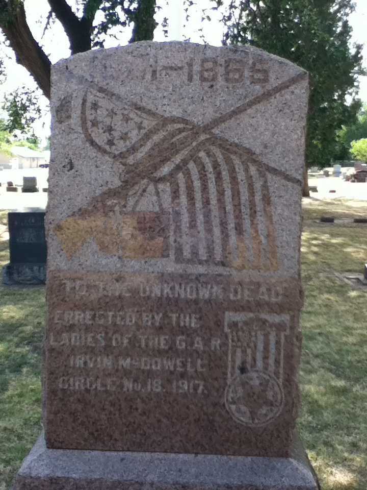 Ladies of the Grand Army of the Republic Irvin McDowell Circle monument to the unknown dead in the Enid Cemetery